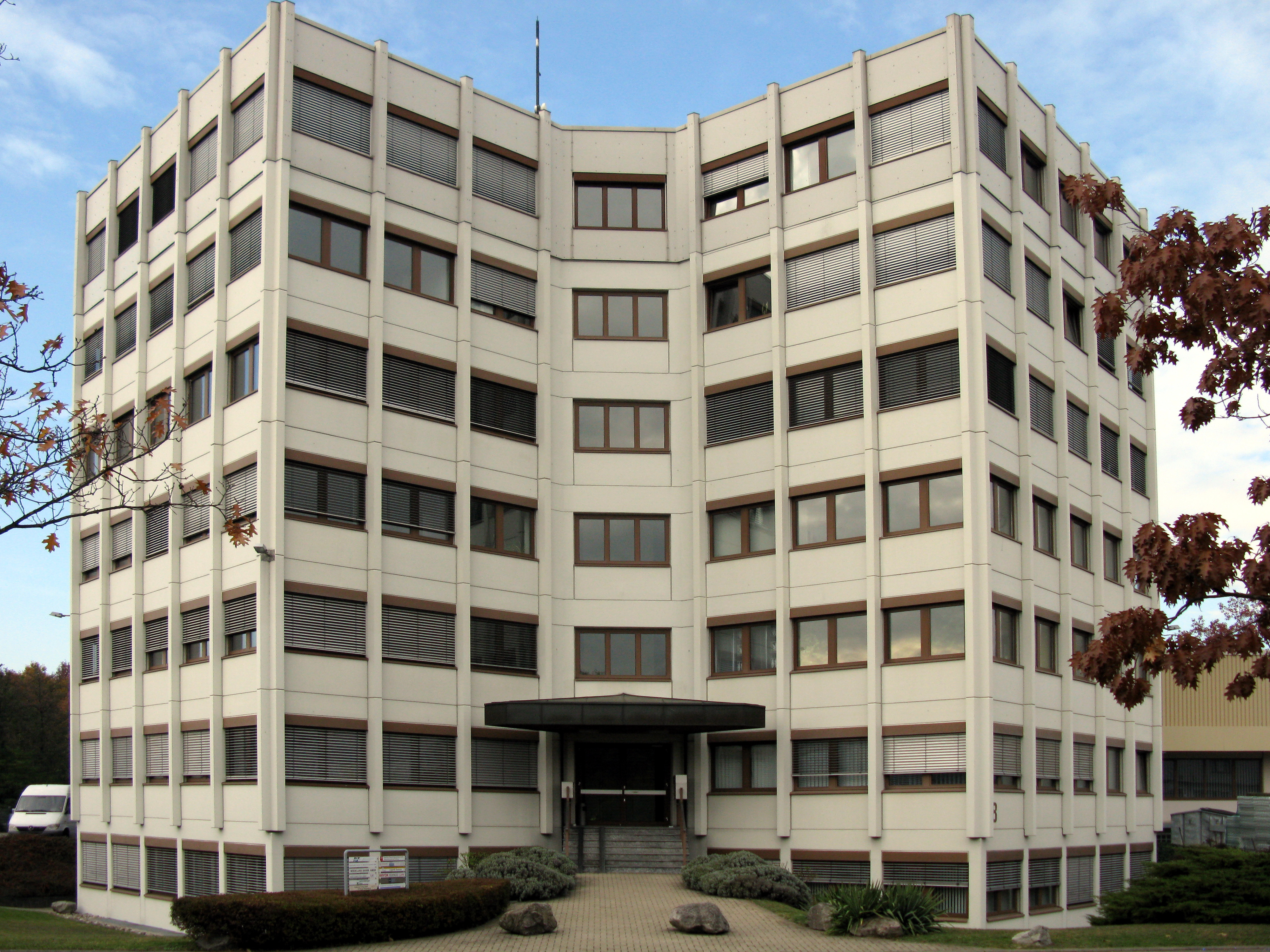 Freiburg, Mitscherlich Street 8, Headquater of the Lambertus publisher